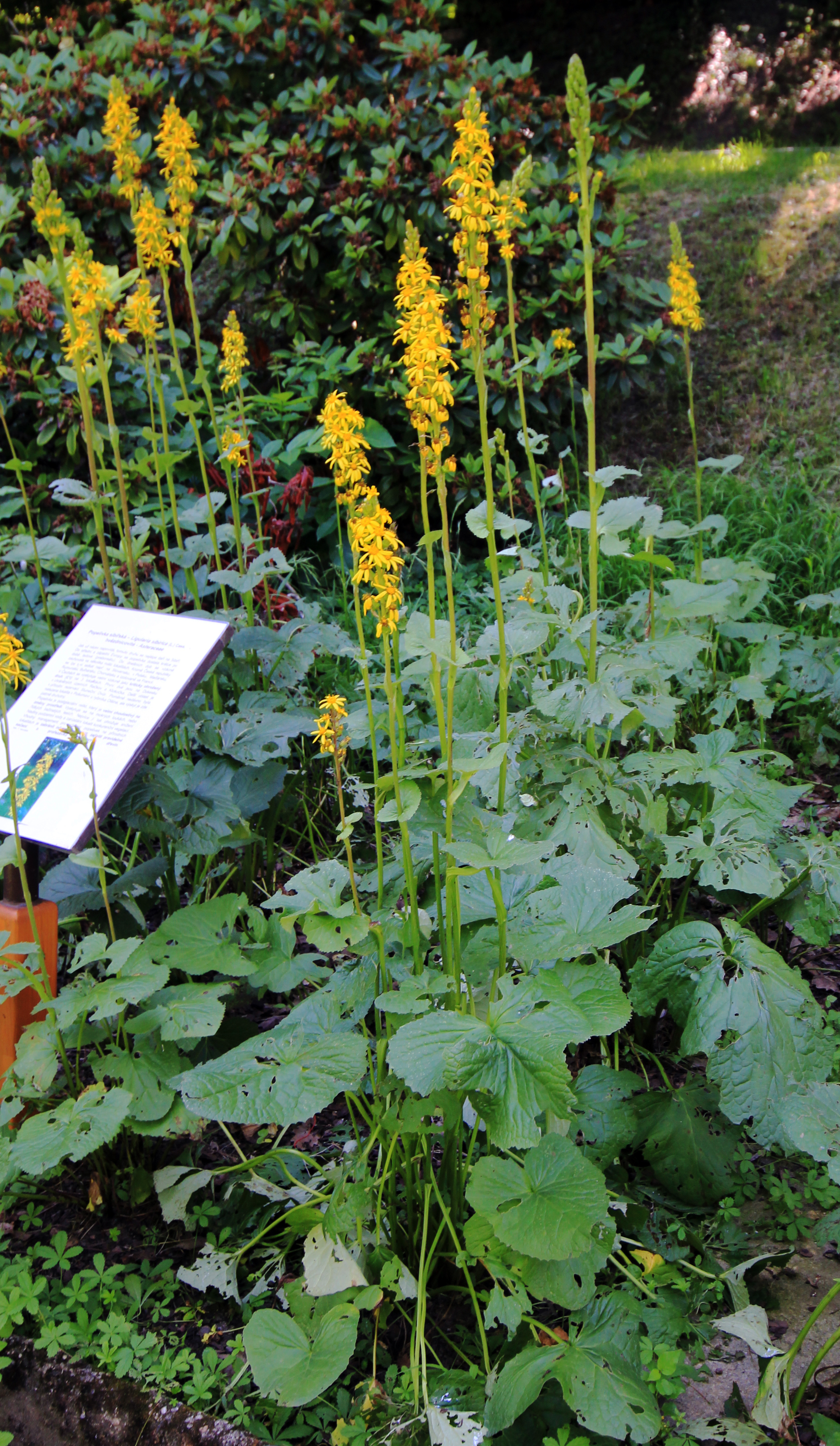 Plant Ligularia sibirica, (Ligularia sibirica), the Botanical Gardens of Charles University, Prague, Czech Republic